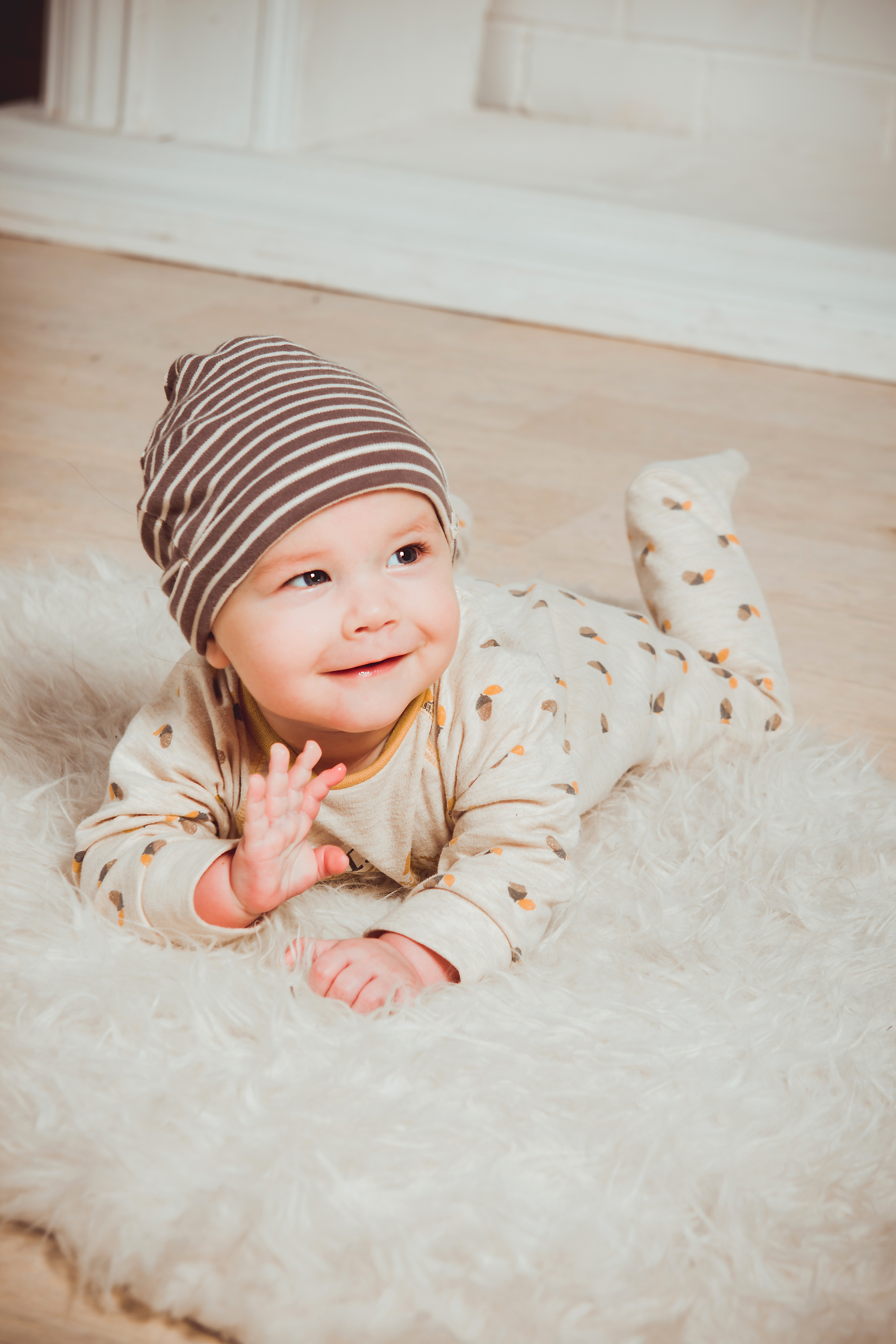 Baby wearing footed one-peice and hat